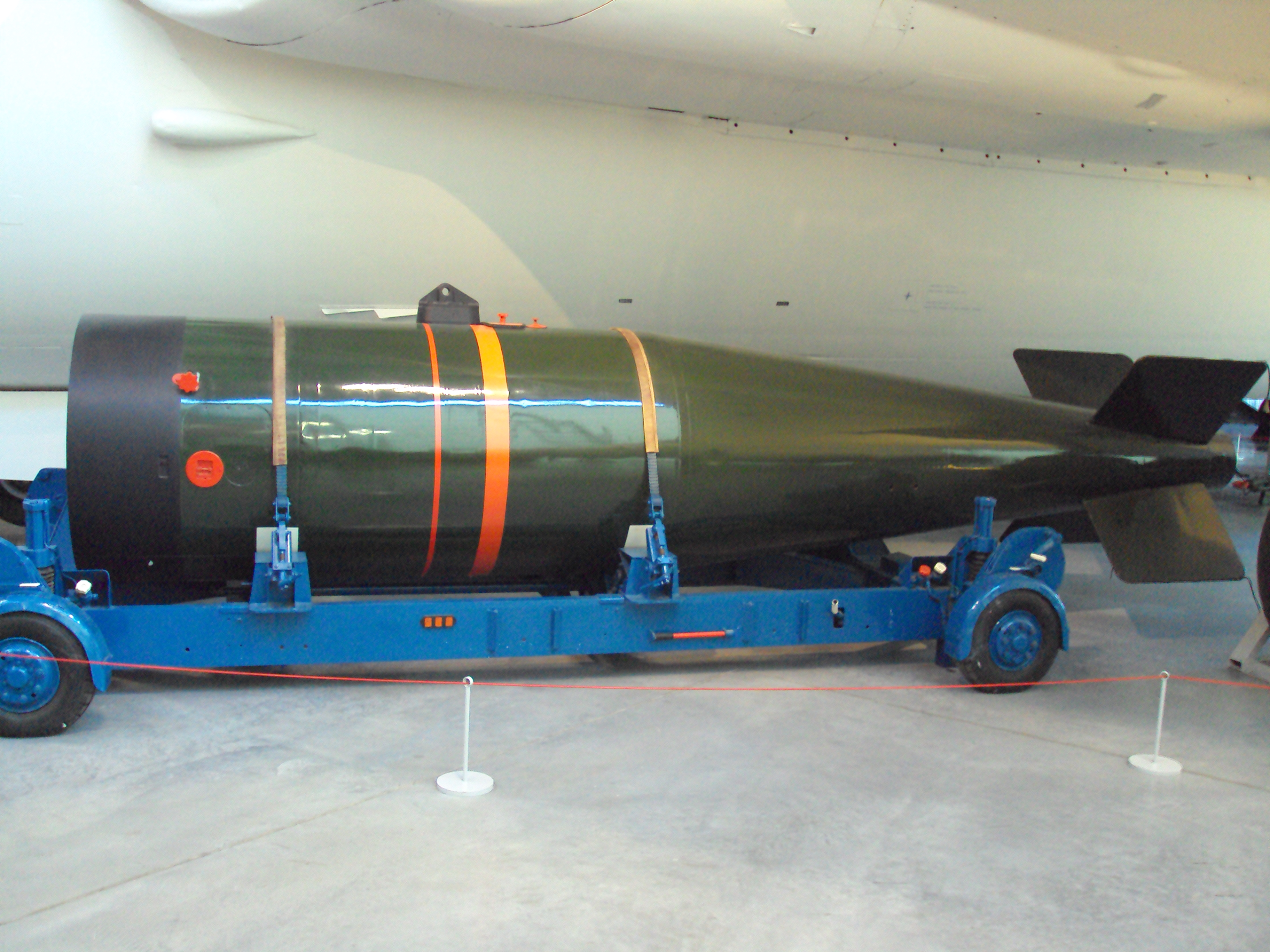 Yellow Sun thermonuclear bomb. Photo taken at the RAF Museum Cosford, Shropshire, England.